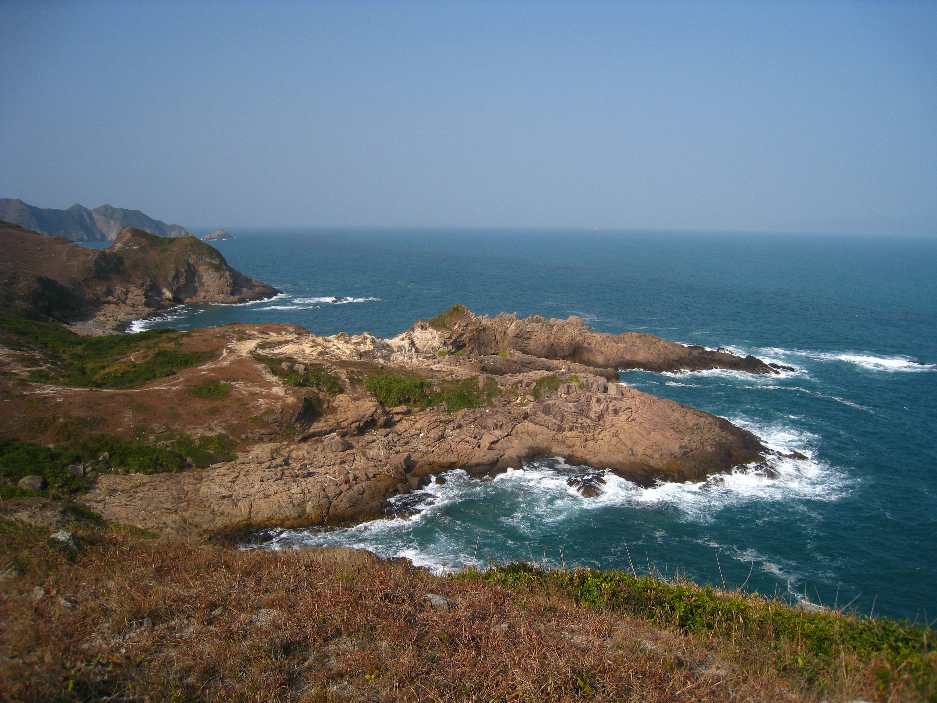 Tai Long Tsui